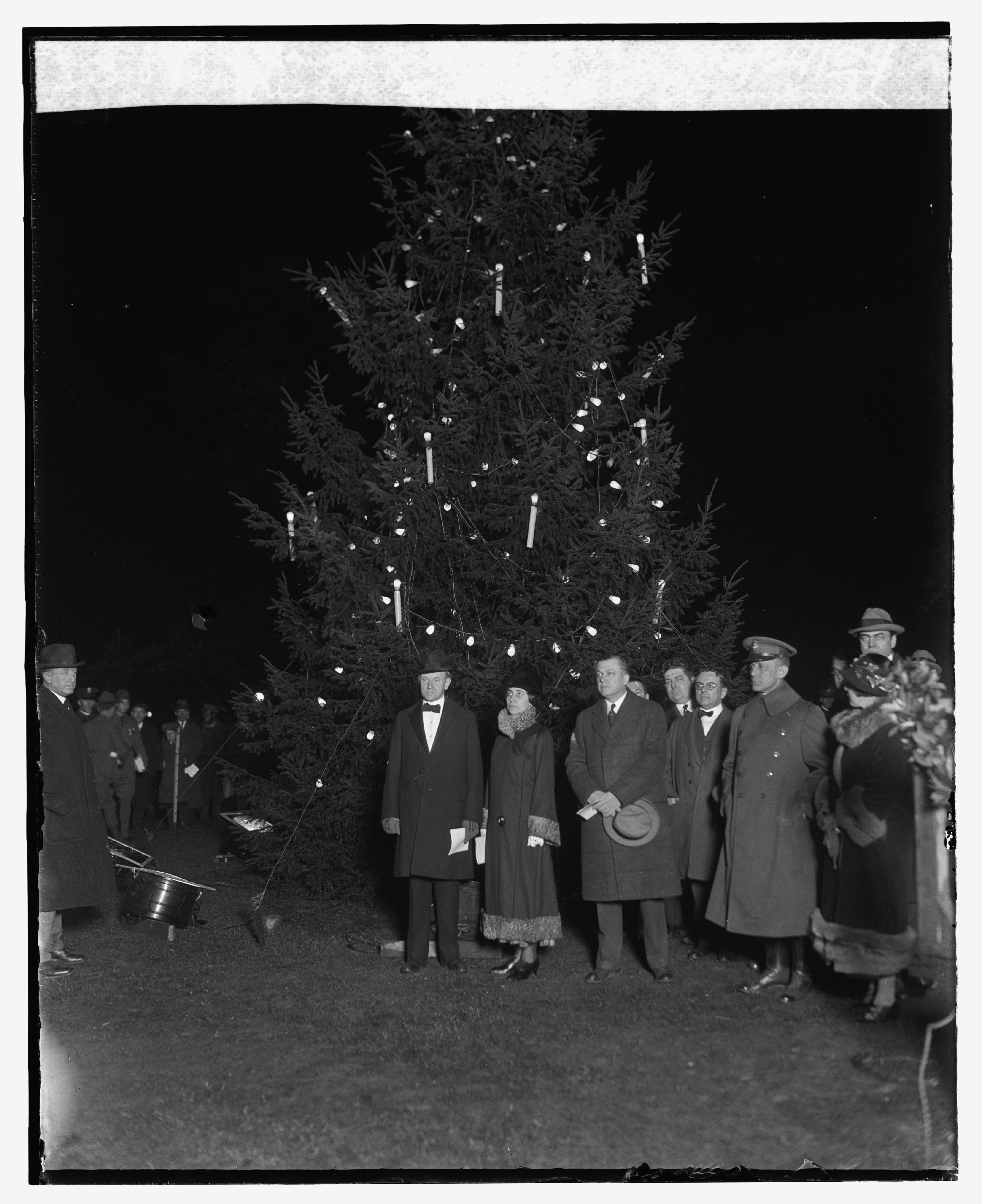 Calvin Coolidge, 30th President of the United States, lights the U.S. National Christmas Tree on Wednesday December 24th, 1924.